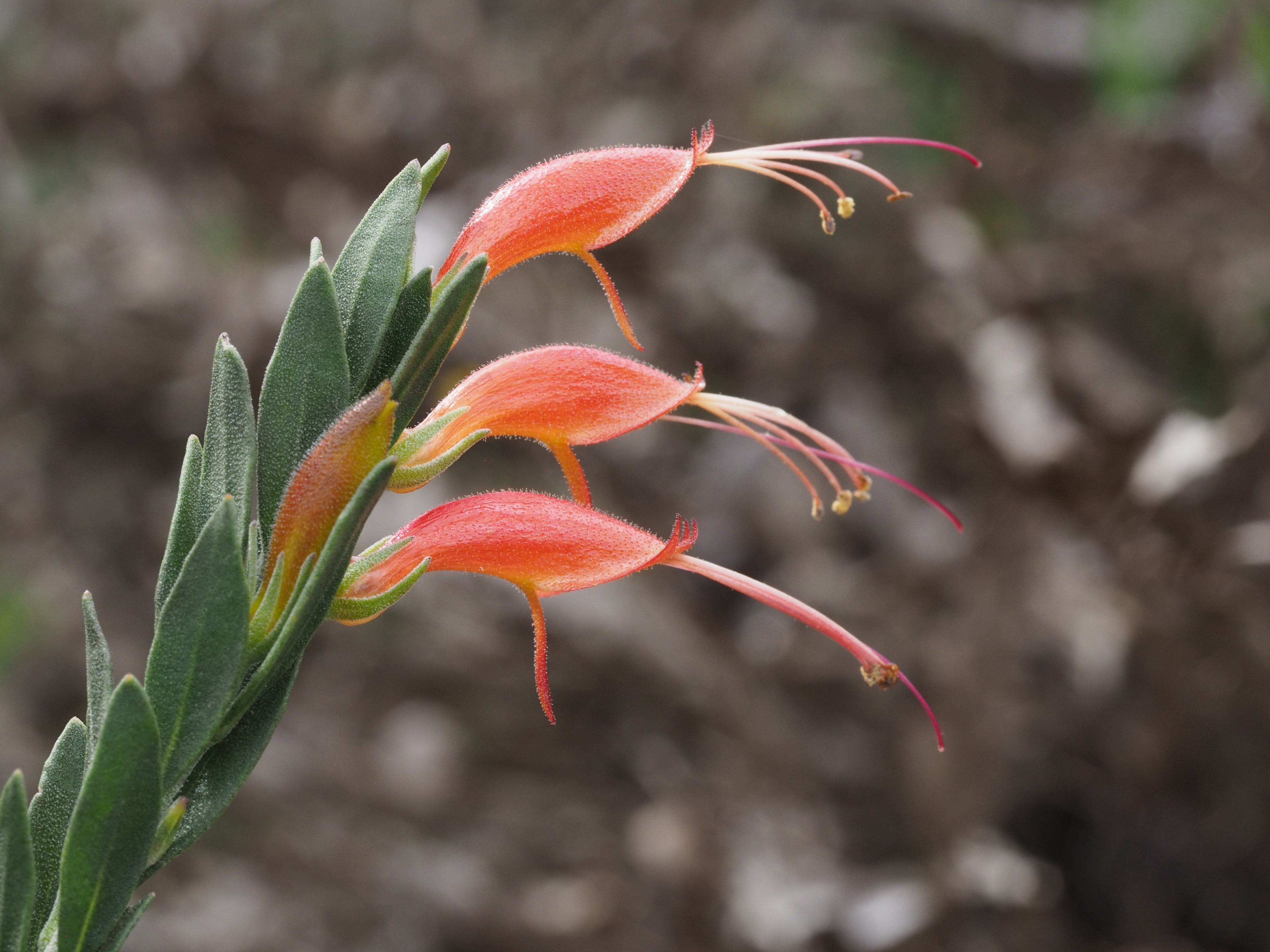 Eremophila glabra South Coast growing near the 8th tee on Ravensthorpe golf course